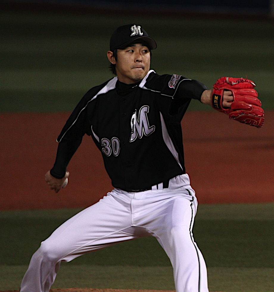 Yoshihiro Ito, pitcher of the Chiba Lotte Marines, at Yokohama Stadium.